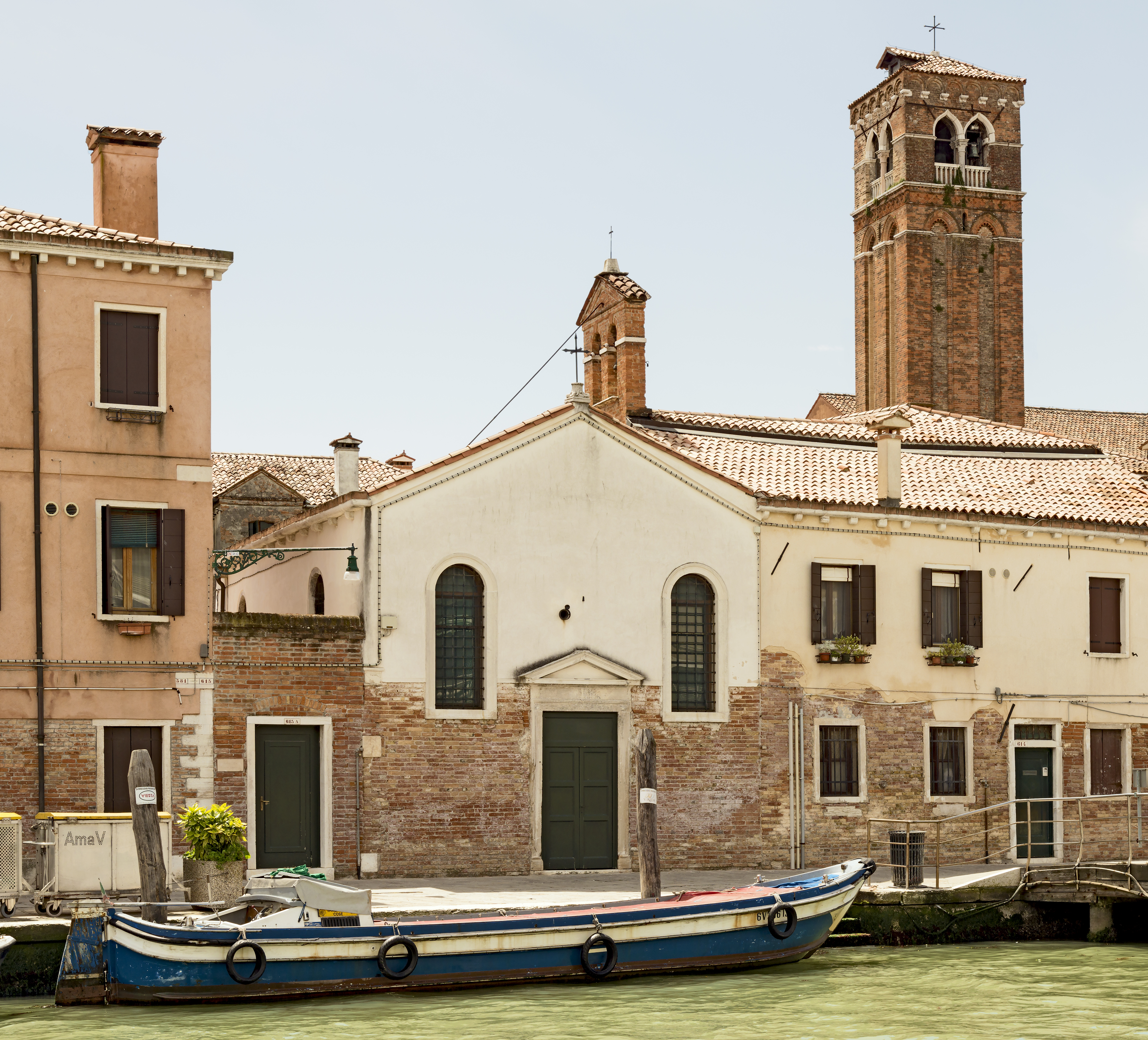 Oratory of the Hospital of Saint Job in Venice